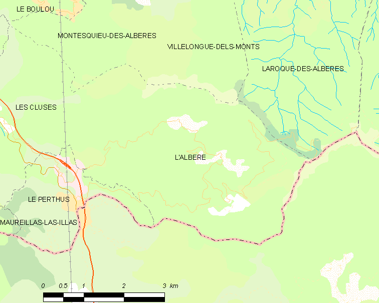 Map of French municipality